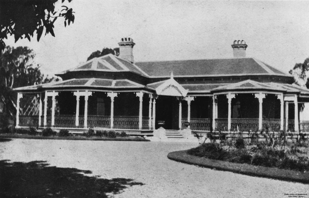 Residence known as 'Eulalia' , Brisbane, Queensland, 1932. "Eulalia" — a large, low set residence, is constructed of brick with a slate roof and wide covered verandahs. Cast iron balustrades feature prominently, with decorative fretwork at the top on the posts. Doors open onto the wide verandah to assist with hot and humid climatic conditions and fire places for warmth in winter. This charming home was designed essentially in the International Victorian manor style by architects John Hall and Sons and was built for the Honourable Patrick Real ca. 1889. [ Information taken from: J. Hogan, Historic Homes of Brisbane,1979].